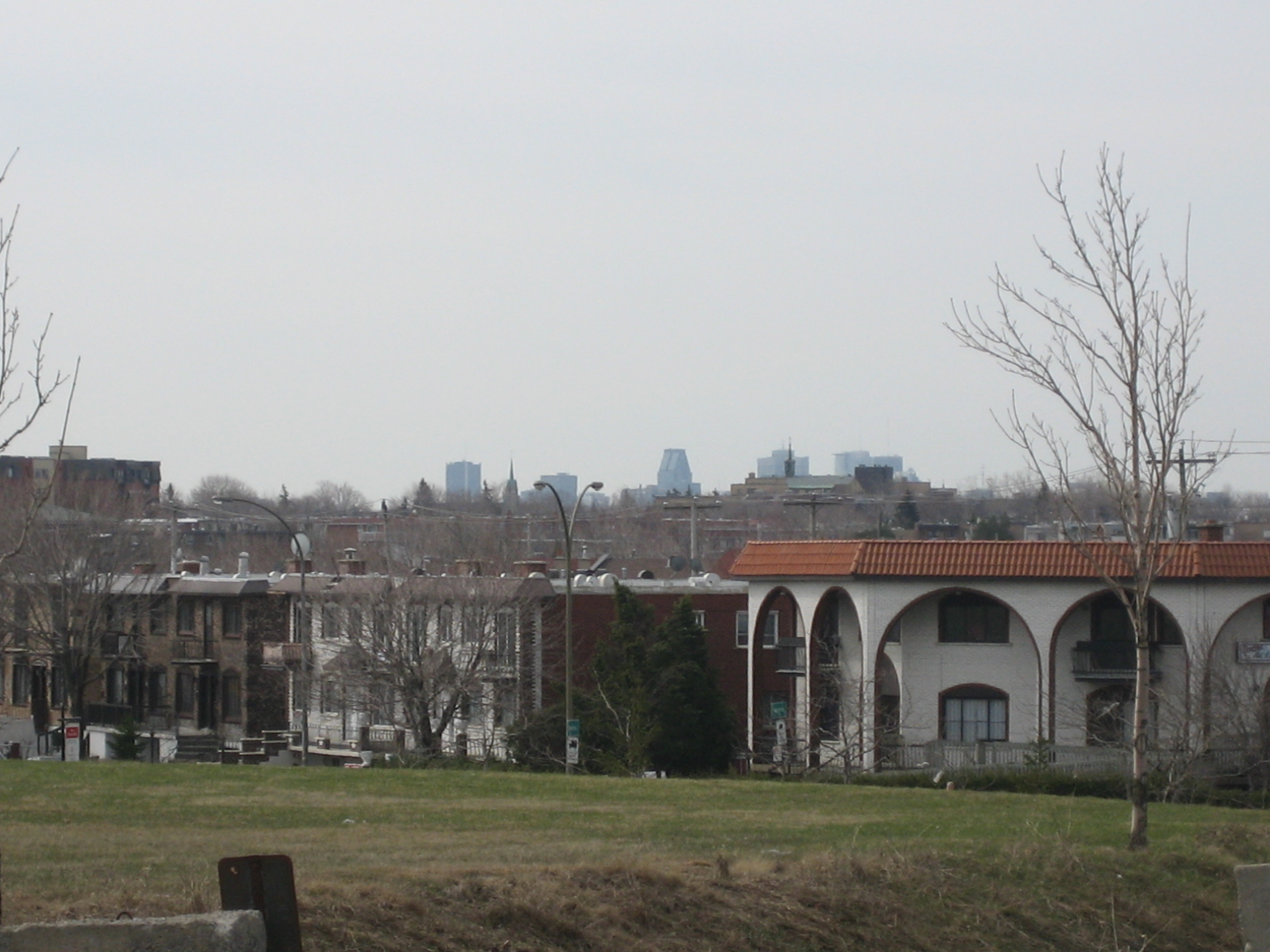 I took this photo when walking to work. April 22